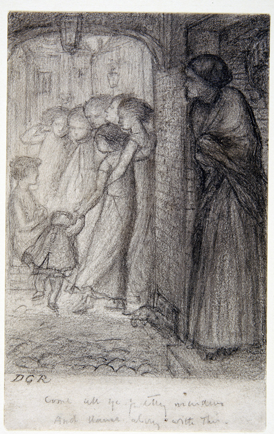 Drawing by Rossetti after a poem by William Bell Scott, Rosabell, about a prostitute. Two lines from the poem are at the bottom of the image: Come all ye pretty maidens And dance along with this.